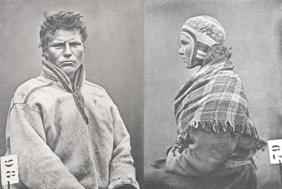 Nicolas Nilsen and Kristin Mikkelsdatter from Kvalsund, wearing the Kvalsund kofte.